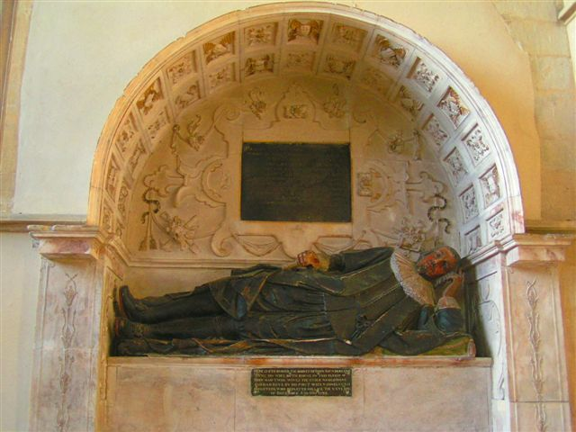 Church of England parish church of St Mary, Uffington, Oxfordshire: monument in the south transept to John Saunders, died 1638